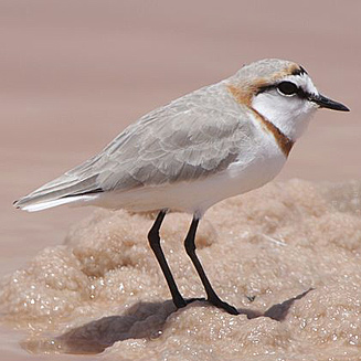 Chestnut-banded Plover, adult male - summer (breeding) plumage, Mile 4 Salt Works, Swakopmund, Namibia, 28 January 2008, © Trevor Hardaker, South Africa